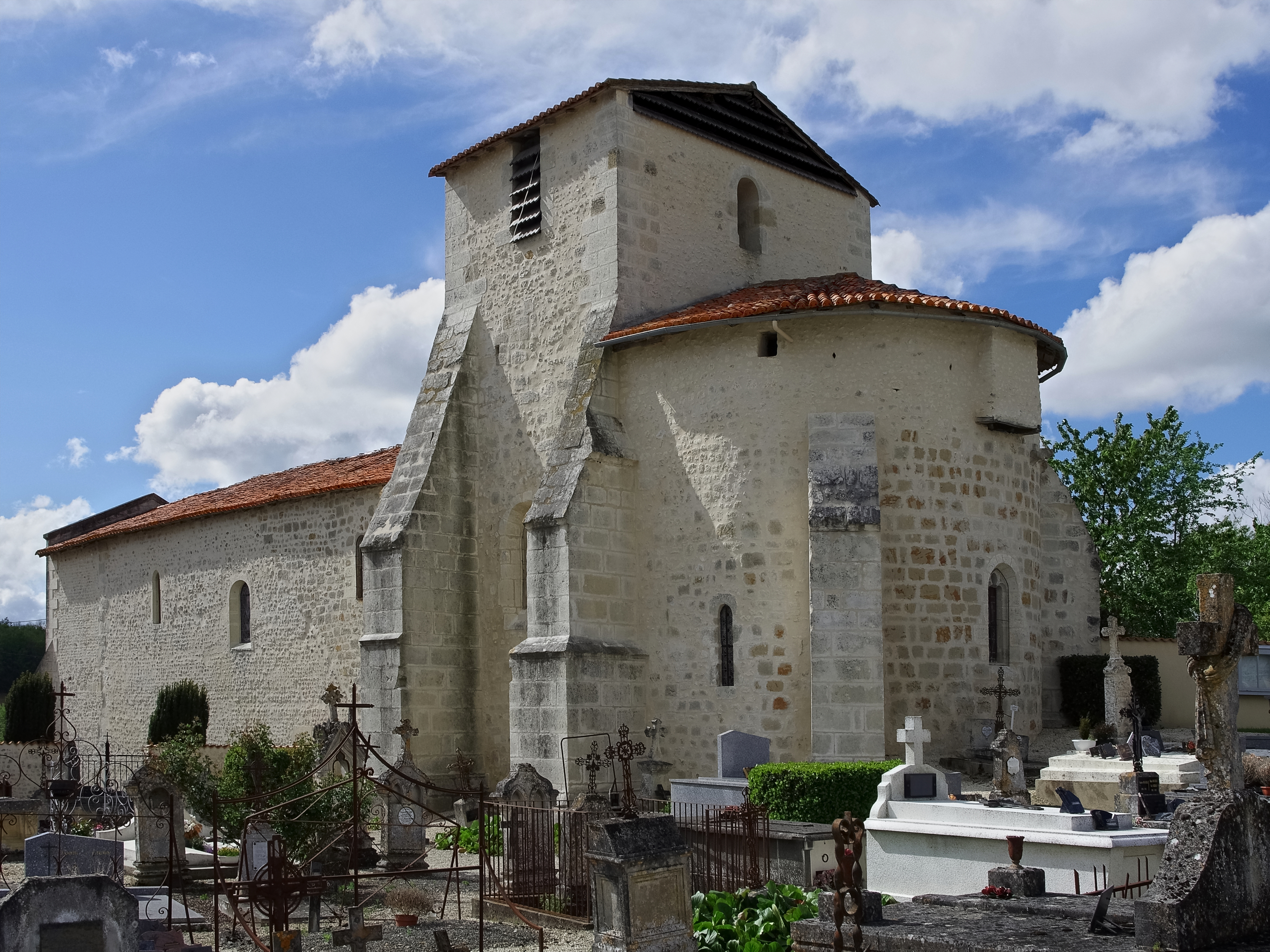 Romanesque Church (12th, 15th and 16th centuries) of Courgeac, Charente, France. .